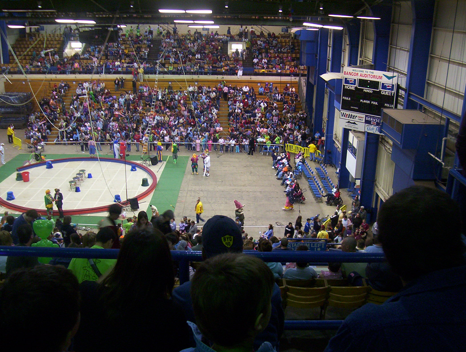 Bangor Auditorium set up for the Shrine Circus. Picture taken from upper stands, about where the V leaves the main part of the building